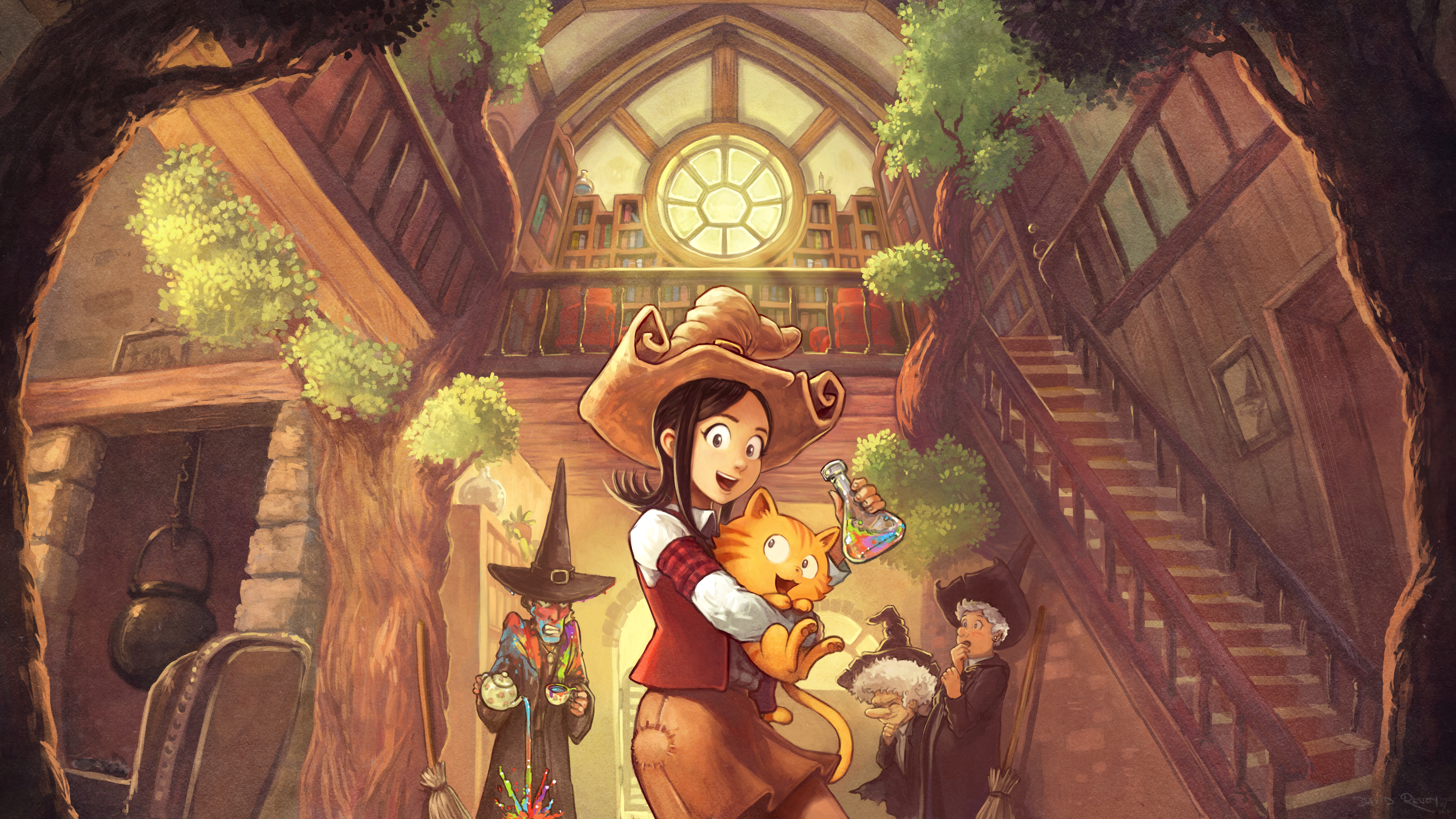 The second cover art of Pepper & Carrot by David Revoy. Drawing done in Krita.